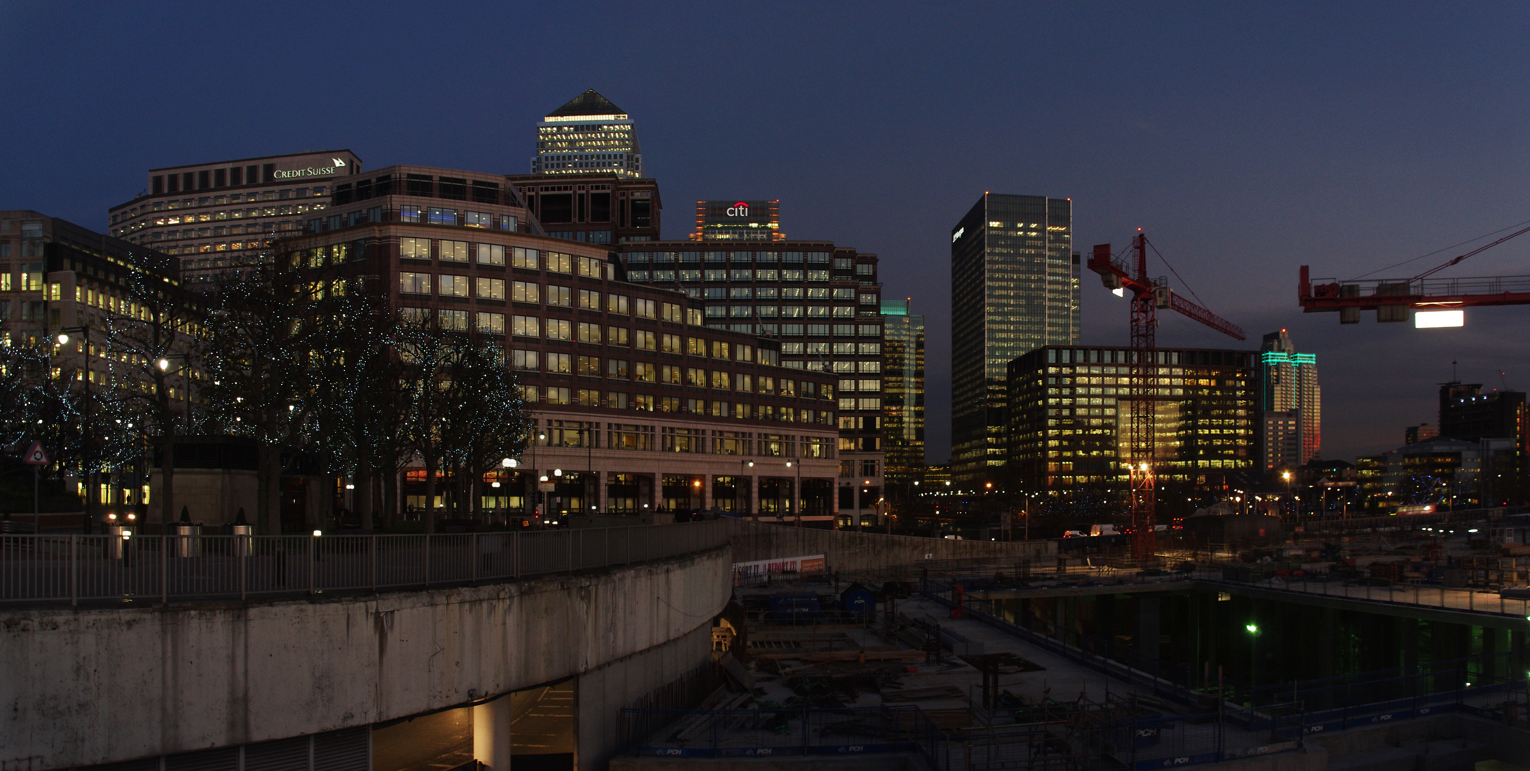 15 Westferry Circus and Canary Wharf reflecting the last of the evening's sunset.